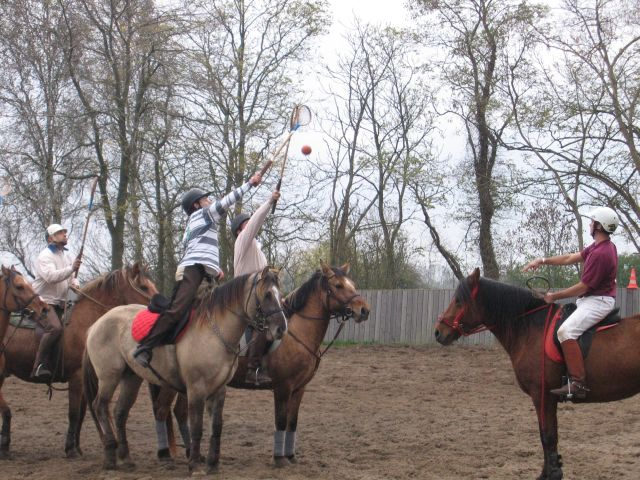 Polocrosse competition at Marquenterre (Somme, France) between the national English team and Marquenterre team. The horses are Henson. Author : Laurent Nguyen (France). Date : 31-oct-2004.